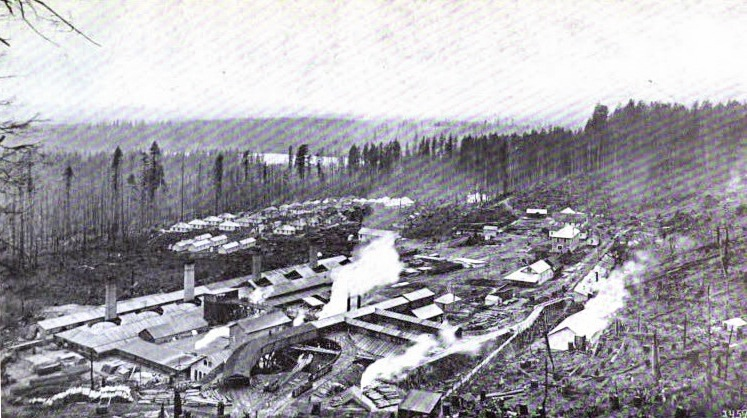 An image of the brickworks of the Denny-Renton Clay and Coal Company Plant, in modern Renton, Washington. Image taken in 1907. Titled "PLANT OF THE DENNY-RENTON CLAY AND COAL COMPANY AT TAYLOR" and "Copyrighted 1907 by Darius Kinsey, Seattle, Washington."